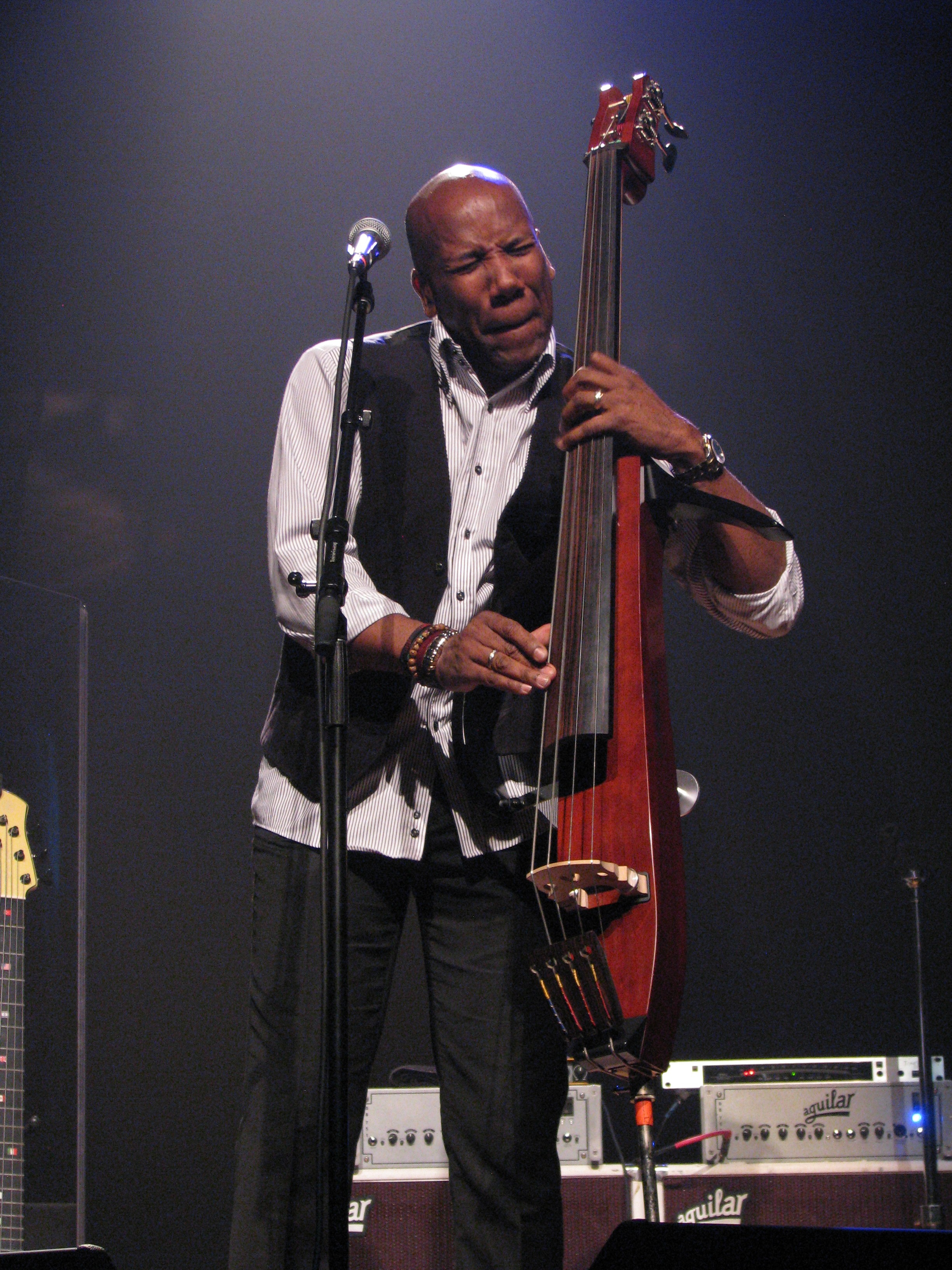 Nathan East playing a Yamaha SLB200 Silent Upright Bass with Fourplay on June 8, 2014